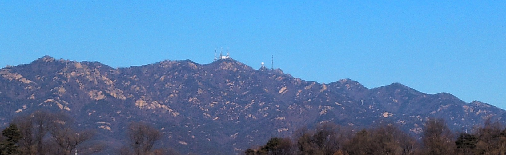 Cheonggyesan looking south from a trailhead in Gwacheon